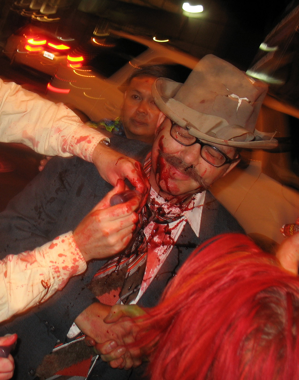 Chicken John having fake blood hastily applied during a zombie mob event outside the San Francisco Main Library, following the only official debate of the 2007 city mayoral election. Frank Chu can be seen behind him.